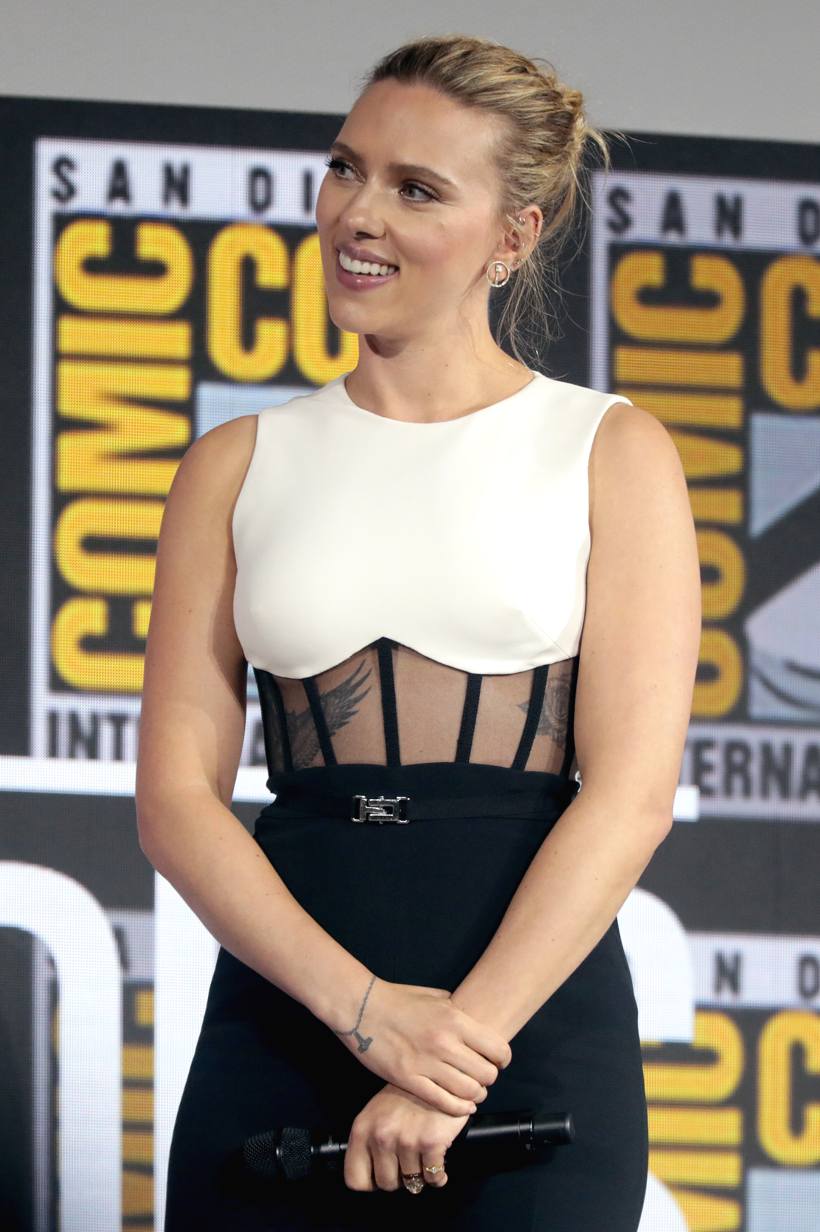 Scarlett Johansson speaking at the 2019 San Diego Comic Con International, for "Black Widow", at the San Diego Convention Center in San Diego, California.